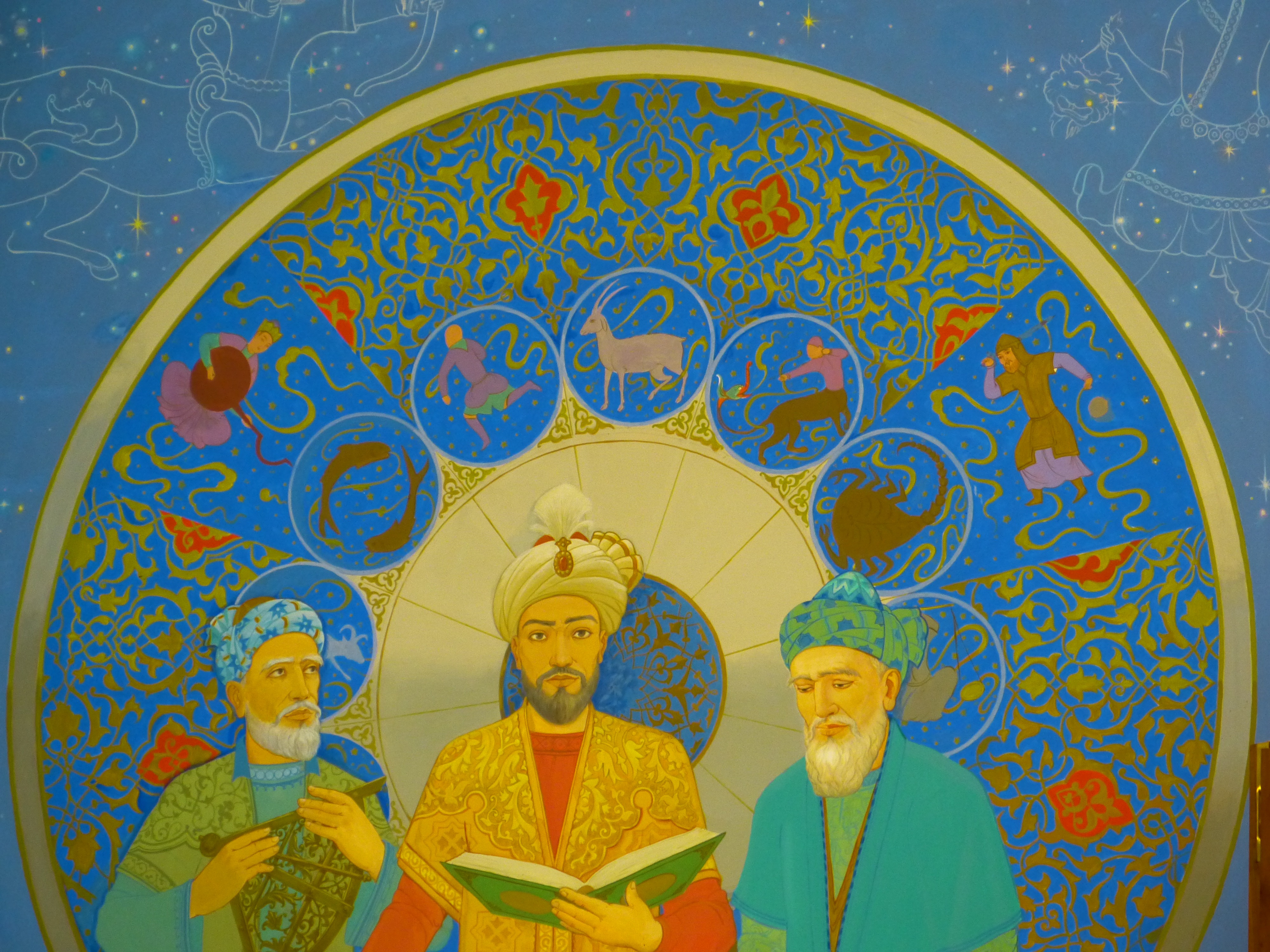 Drawing on astronomy: Ulugbek Observatory Museum